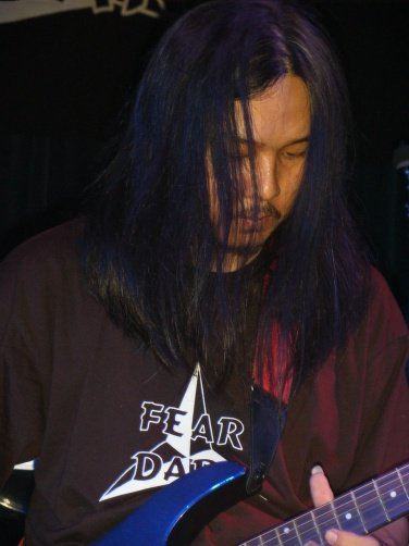 Close up of Indonesian guitarist with long black hair